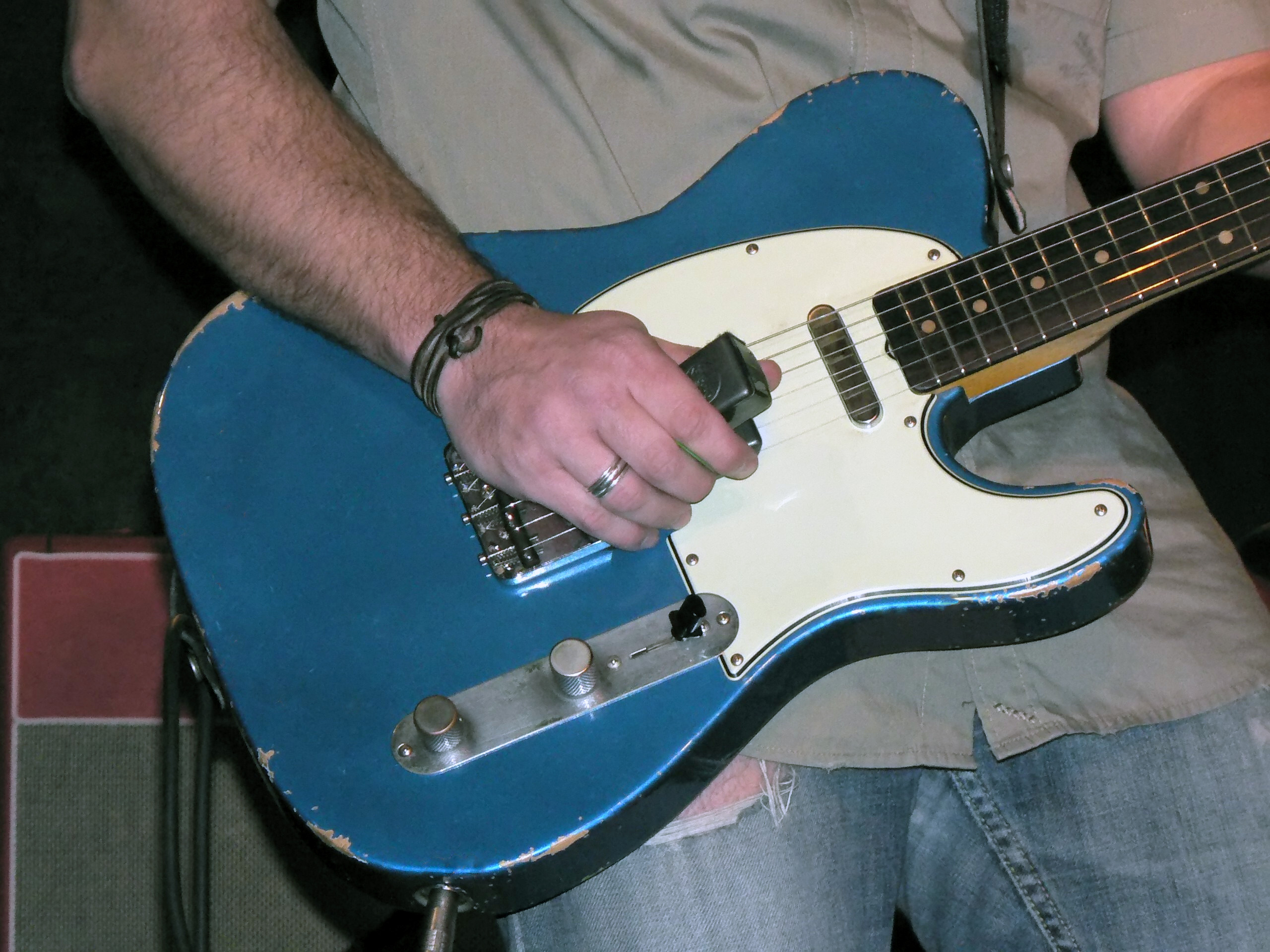 Yannick, guitarist for Audrey Sara, playing an EBow at l'Archipel in Paris